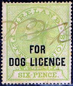 Irish petty sessions court fee six pence revenue stamp overprinted for dog licence use.